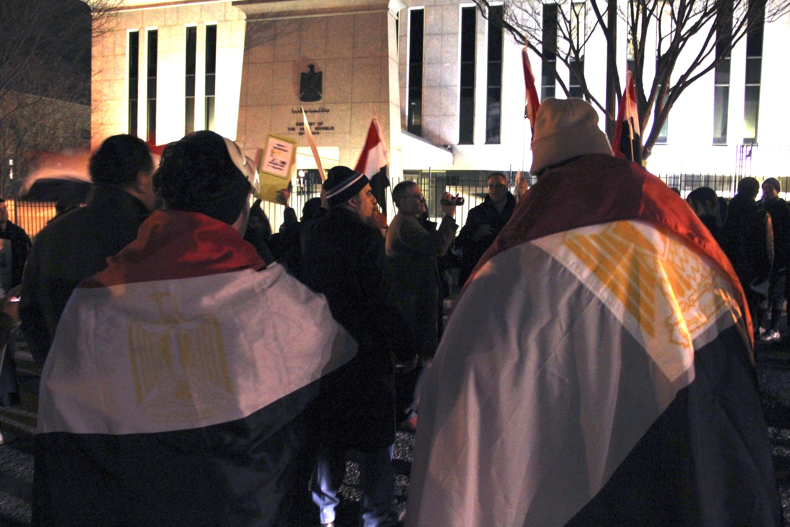 Flag-wearing protesters outside the Egyptian embassy in Washington, DC, US